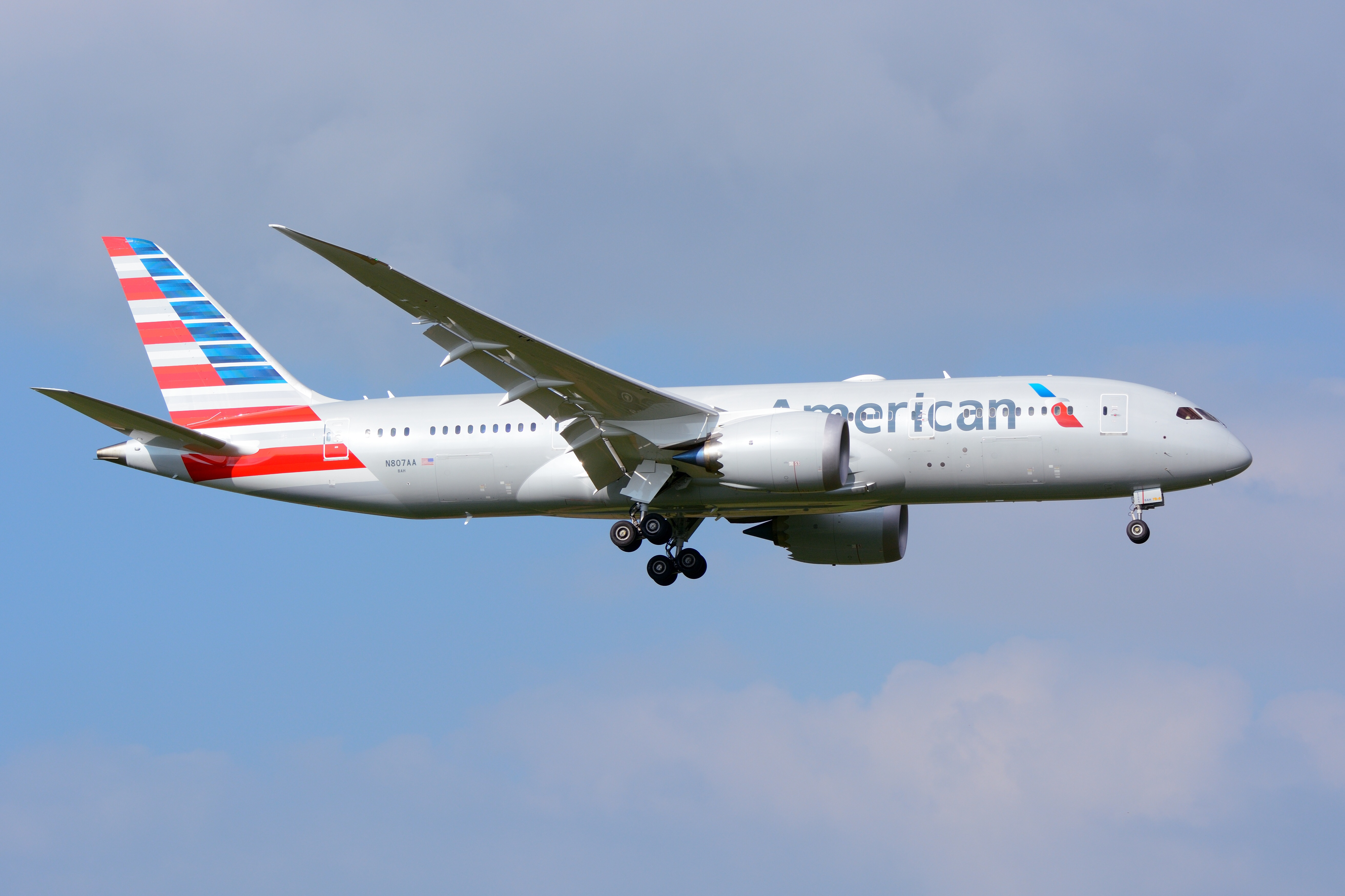 American Airlines, Boeing 787-8 N808AA NRT